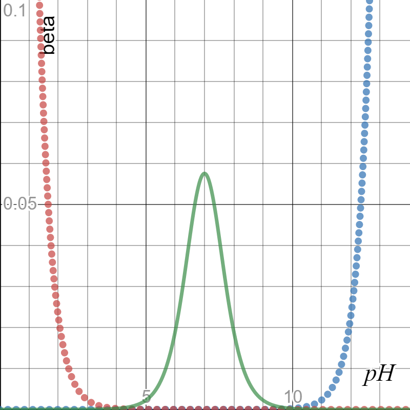 Break down of the 3 terms in the buffer capacity equation. First term in the equation is blue, the second term is red, and the third term is green.